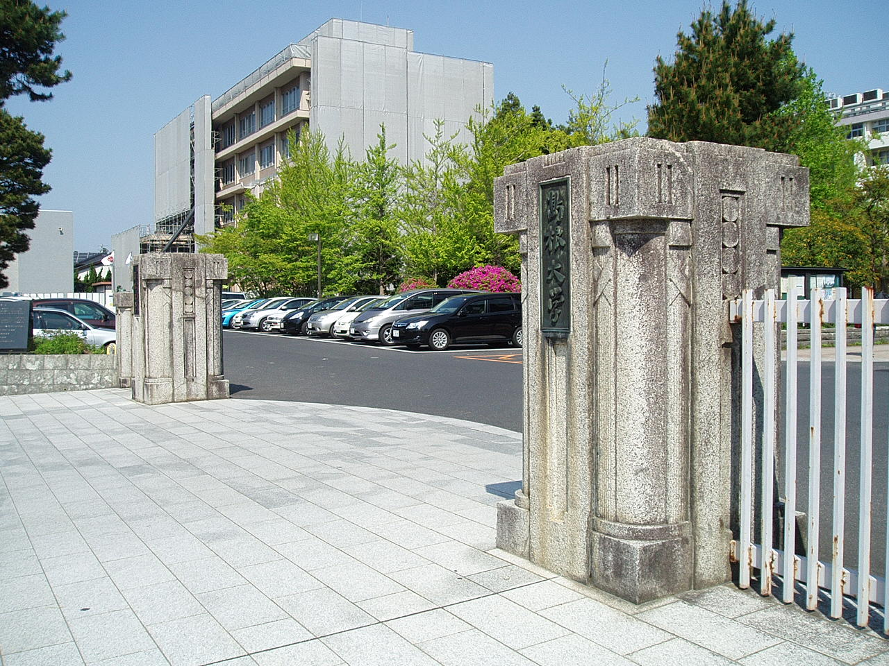 Gate pillars of Matsue Campus, Shimane University, located in Matsue, Shimane, Japan. The pillars have been inherited from Matsue Higher School (1920 - 1950), one of the predecessors of the university. They belong to the registered tangible cultural properties of Japan (#32-0047).